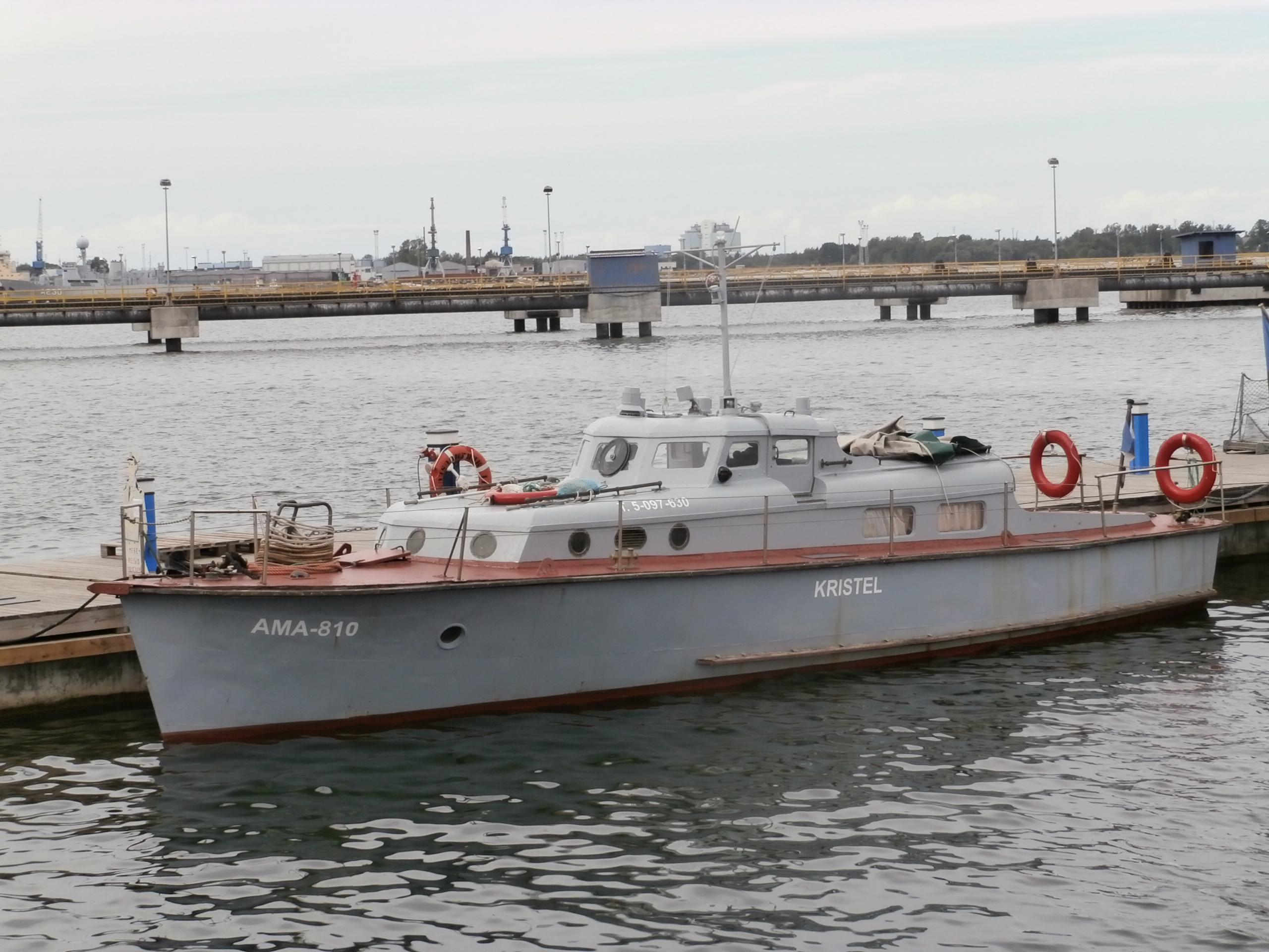 Kristel at Pier Lennusadam Tallinn 20 August 2013